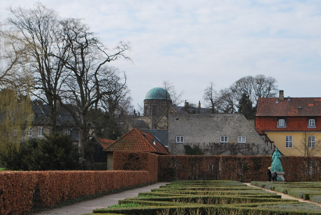 Kongens Have with the dome of Østervold Observatory seen in the background